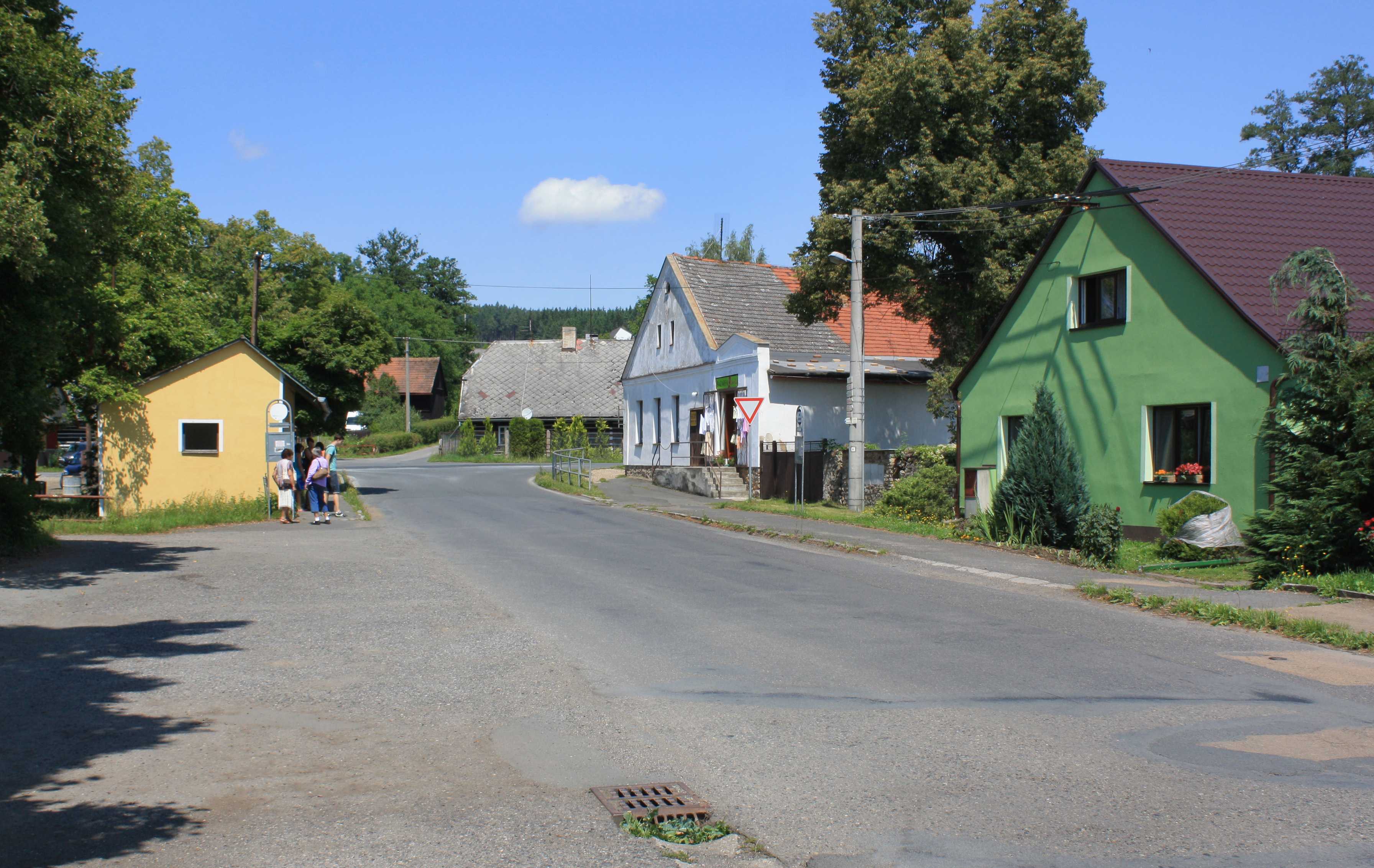 Common in Strašice, Czech Republic